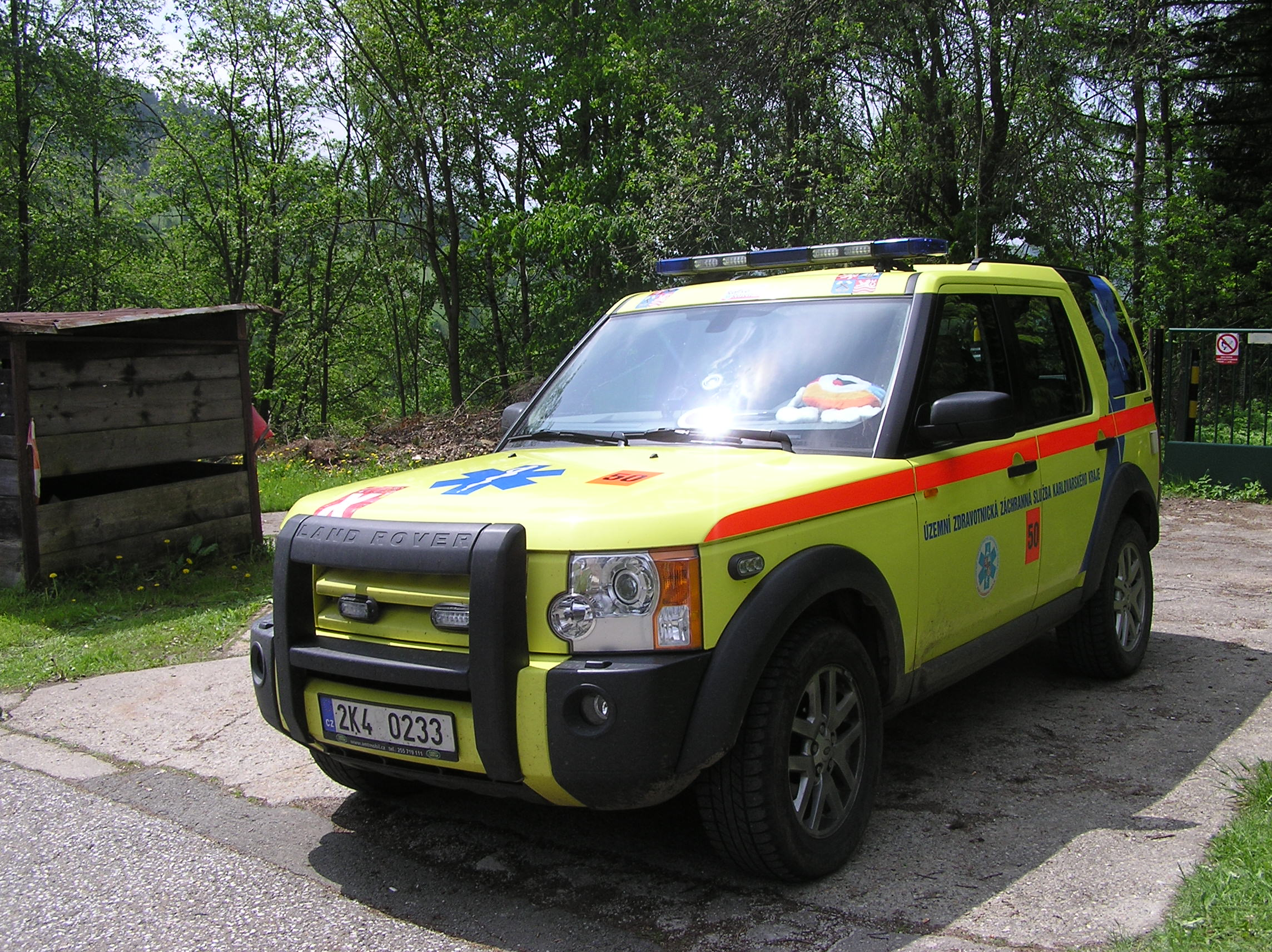 Ambulance vehicle first responder unit (Rendez-Vous) of the Emergency Medical Services of Karlovy Vary Region, Czech Republic. Photo was taken during the international competition Rallye Rejvíz 2010 in Kouty nad Desnou, Czech Republic.